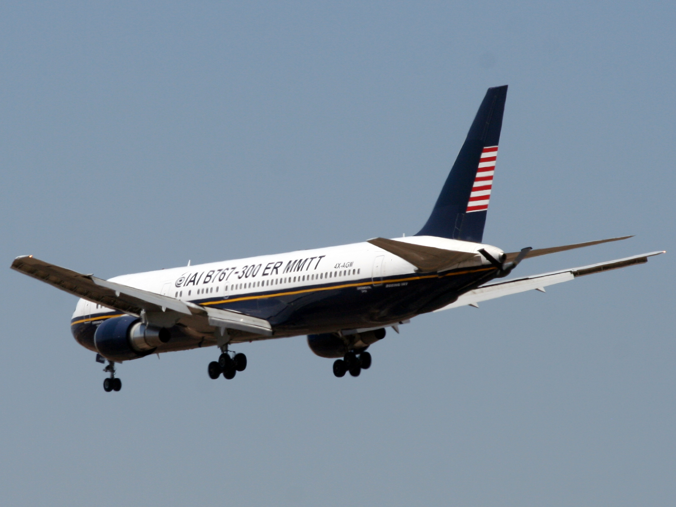 Landing at Ben Gurion International airport.